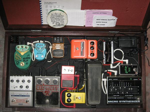 Pedal Board - 07/08 ...in upgrading with BOSS HR-2 Harmonist and COPILOT FX ANDROID MODULAOR !!! upper Ibanez LU10 Tuner Guitar Box home made A/B Box lower (right to left) Electro Harmonix Micro Synthesizer EKO Wha ('74 red fasel) MXR MXR Distortion + Crysta Distortion DS-1 Electro Harmonix Big Muff AKAI HeadRush E1 upper (left to right) Danelectro Backtalk Reverse Delay Danelectro PB&J Delay Behringer Ultra Tremolo Maxon PH-350 Rotary Phaser